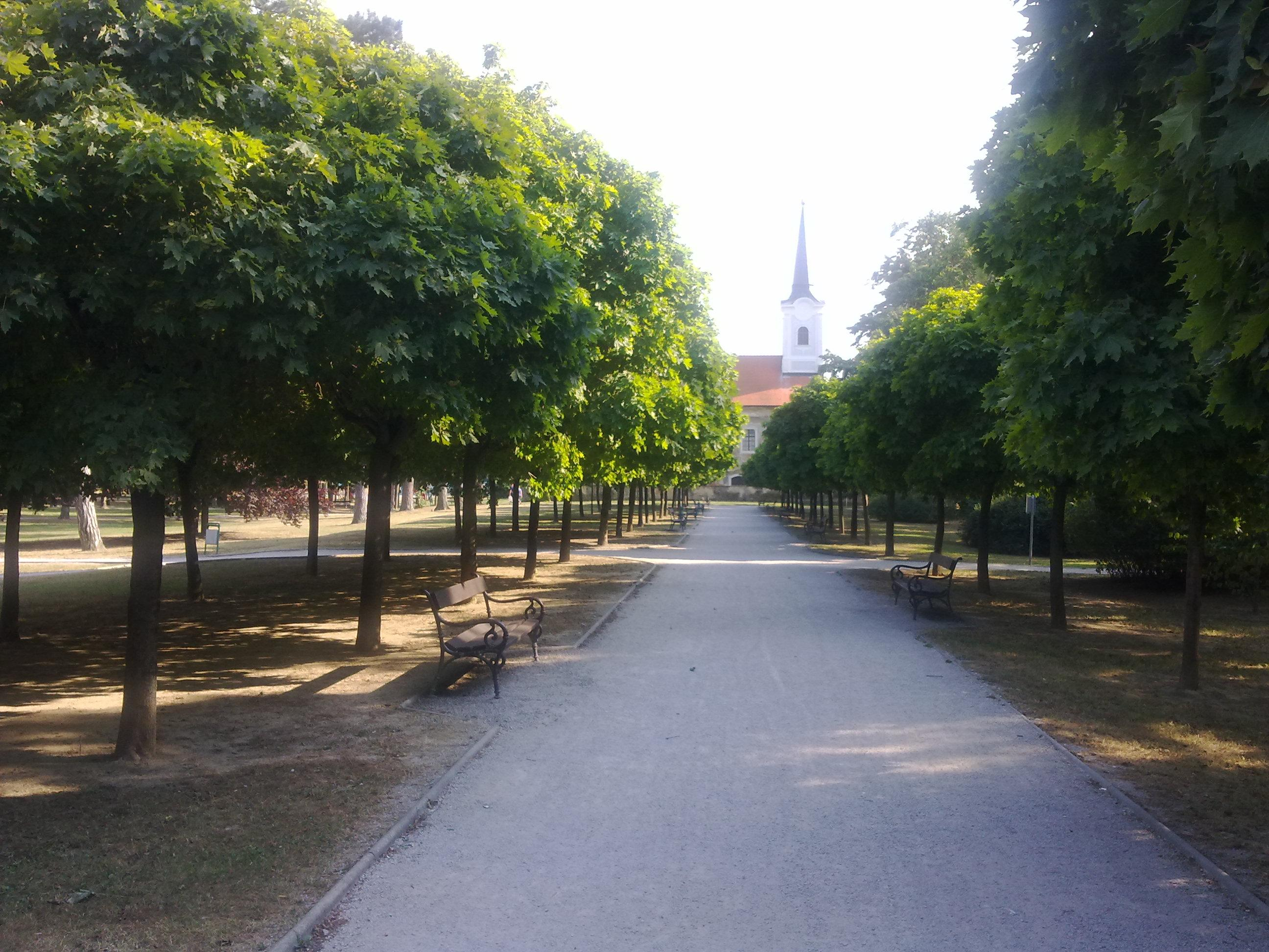 Koprivnica